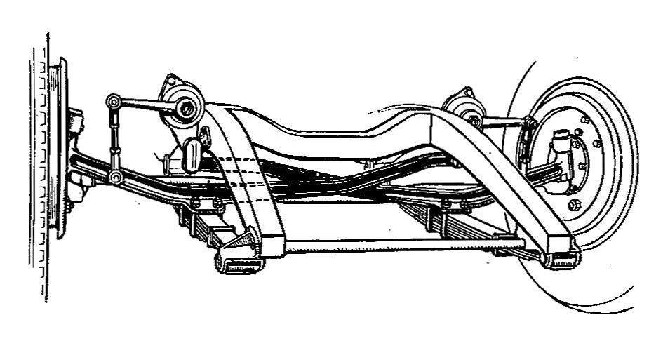 Unic long swing beam front axle (Autocar Handbook, 13th ed, 1935).jpg